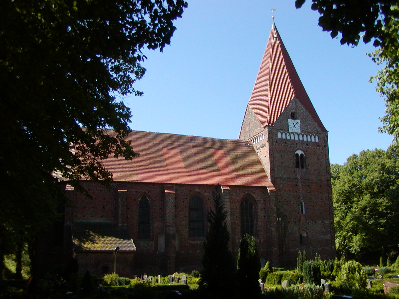 Church in Kirchdorf on Poel island, Mecklenburg-Vorpommern, Germany